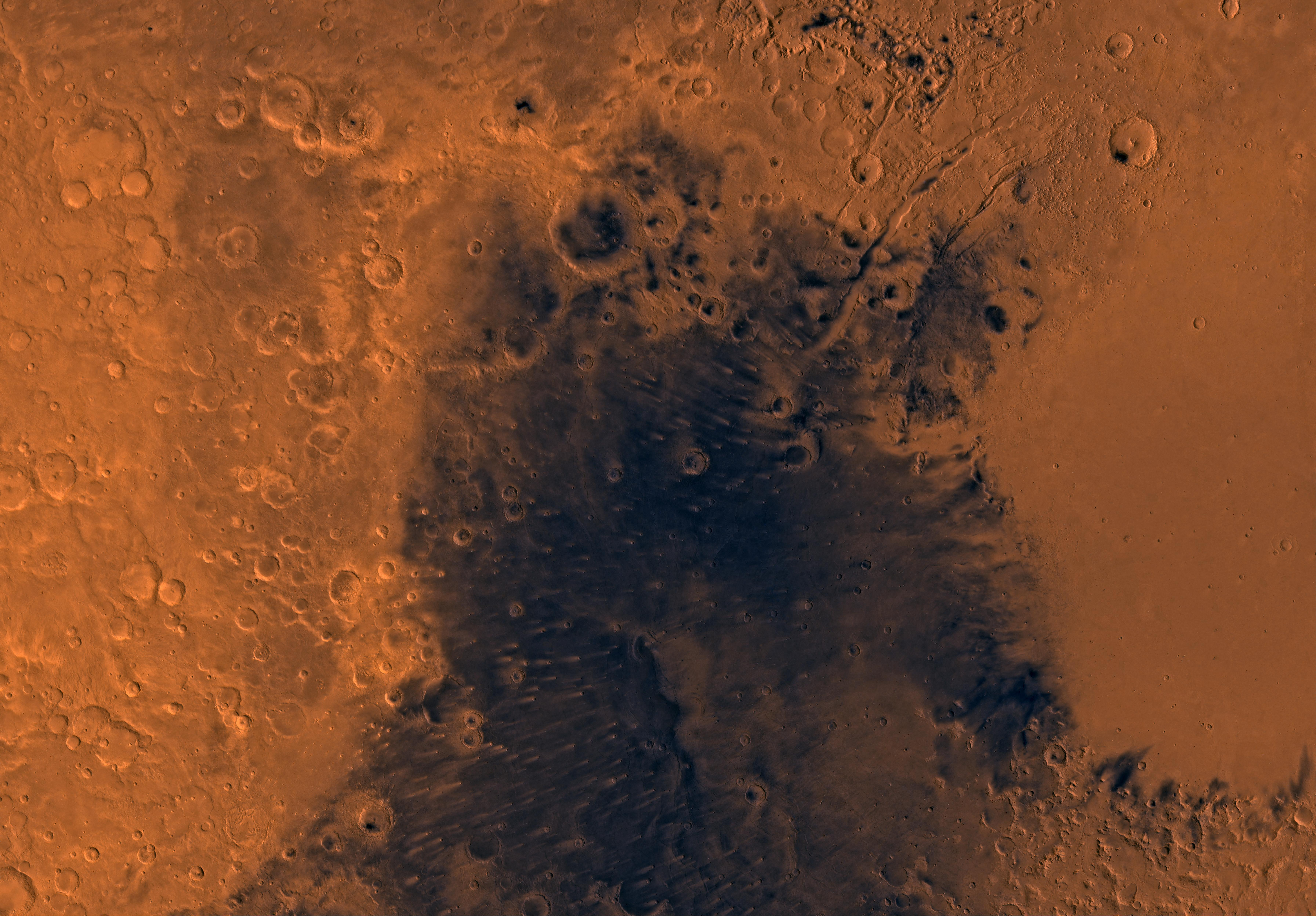 Mars digital-image mosaic merged with color of the MC-13 quadrangle, Syrtis Major region of Mars. The central part is dominated by dark dust and lava flows of the Syrtis Major Planitia region. These lava flows are partly bounded to the east by a large depression, Isidis basin, which contains smooth plains, and to the west and north by heavily cratered and moderately faulted highlands. Latitude range 0 to 30 degrees, longitude range -90 to -45 degrees.